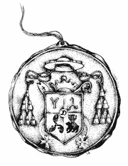 seal of Minsk bishop Dederko (died 1829)